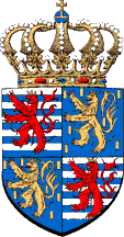 Luksemburgi väike vapp